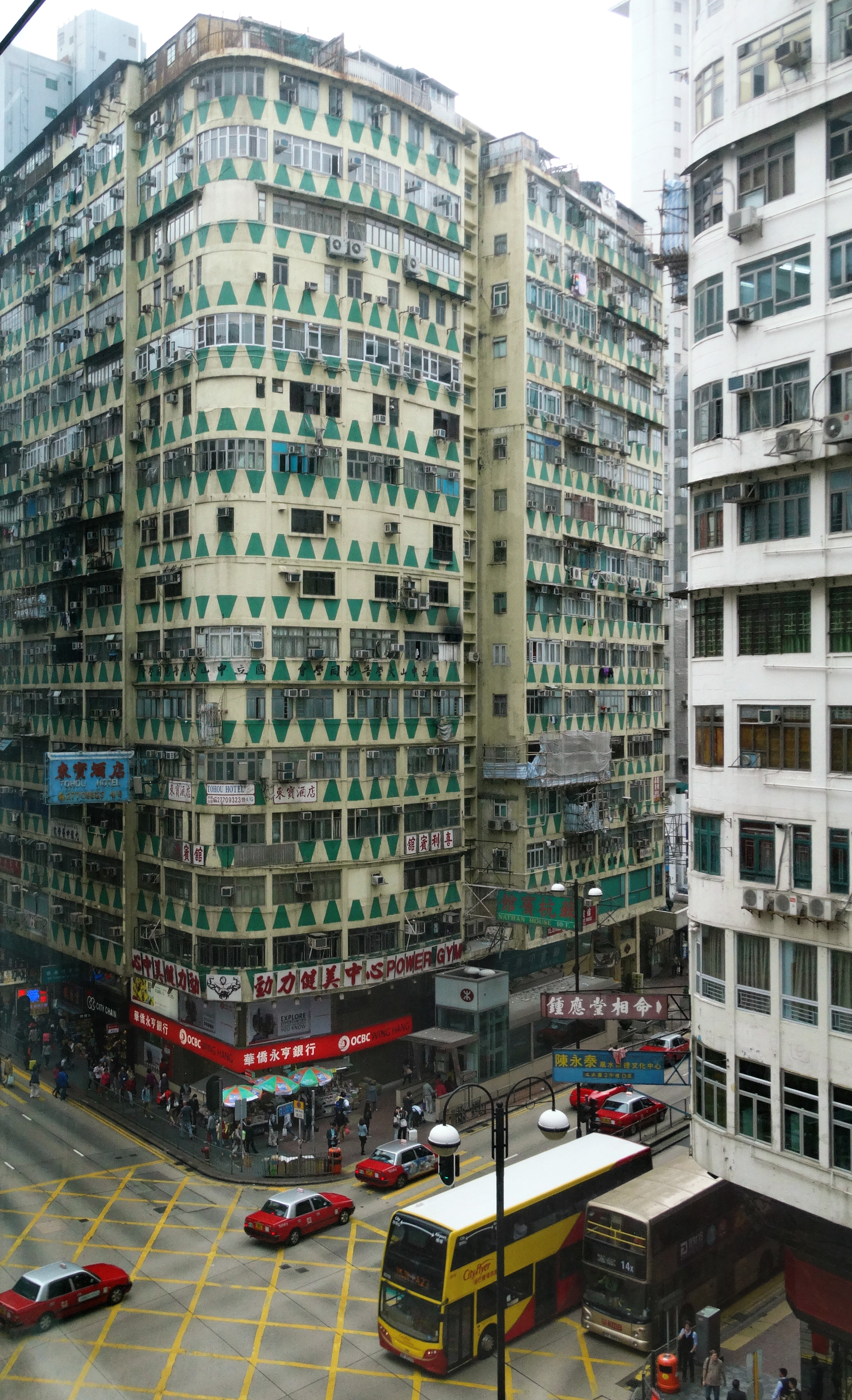 New Lucky House at the intersection of Nathan Road and Jordan Road, Kowloon, Hong Kong.